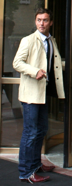 Jude Law at the 2006 Toronto International Film Festival